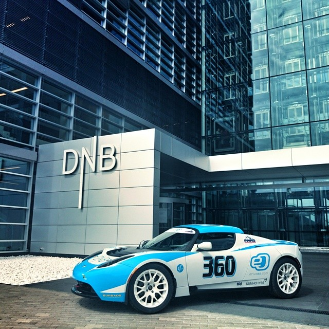 Drive eO. Based on a Tesla Roadster chasis #DriveeO 2014 model "eO PP02"